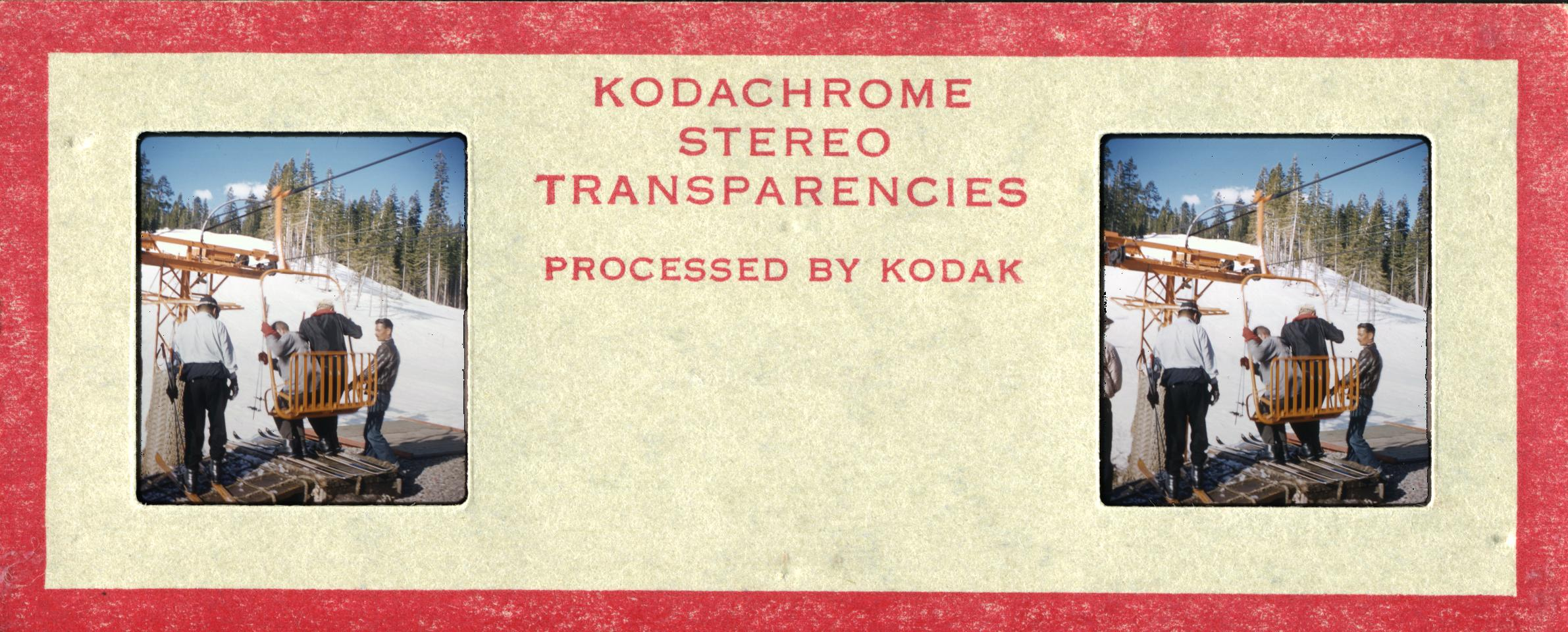 Stereo slide in standard cardboard mounts used by Kodak's stereo mounting service until about 1957.